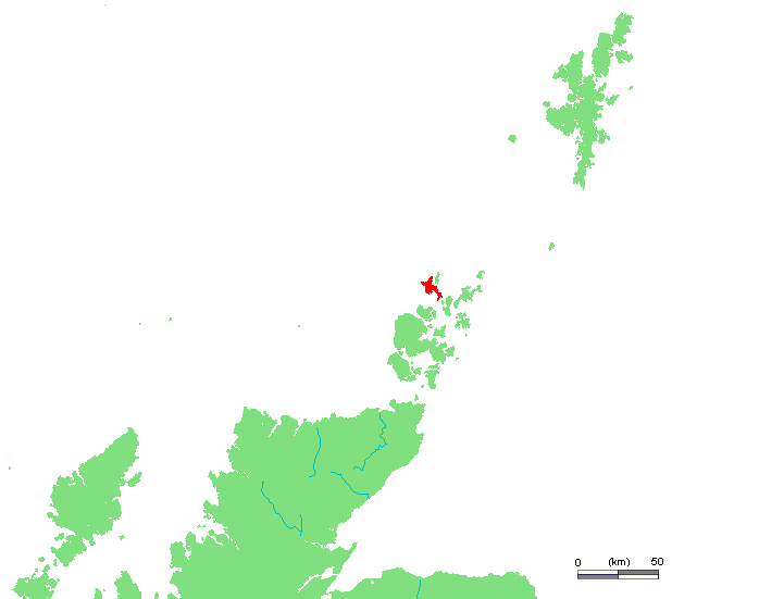 VK Westray.PNG (Orkney and Shetland islands, UK)